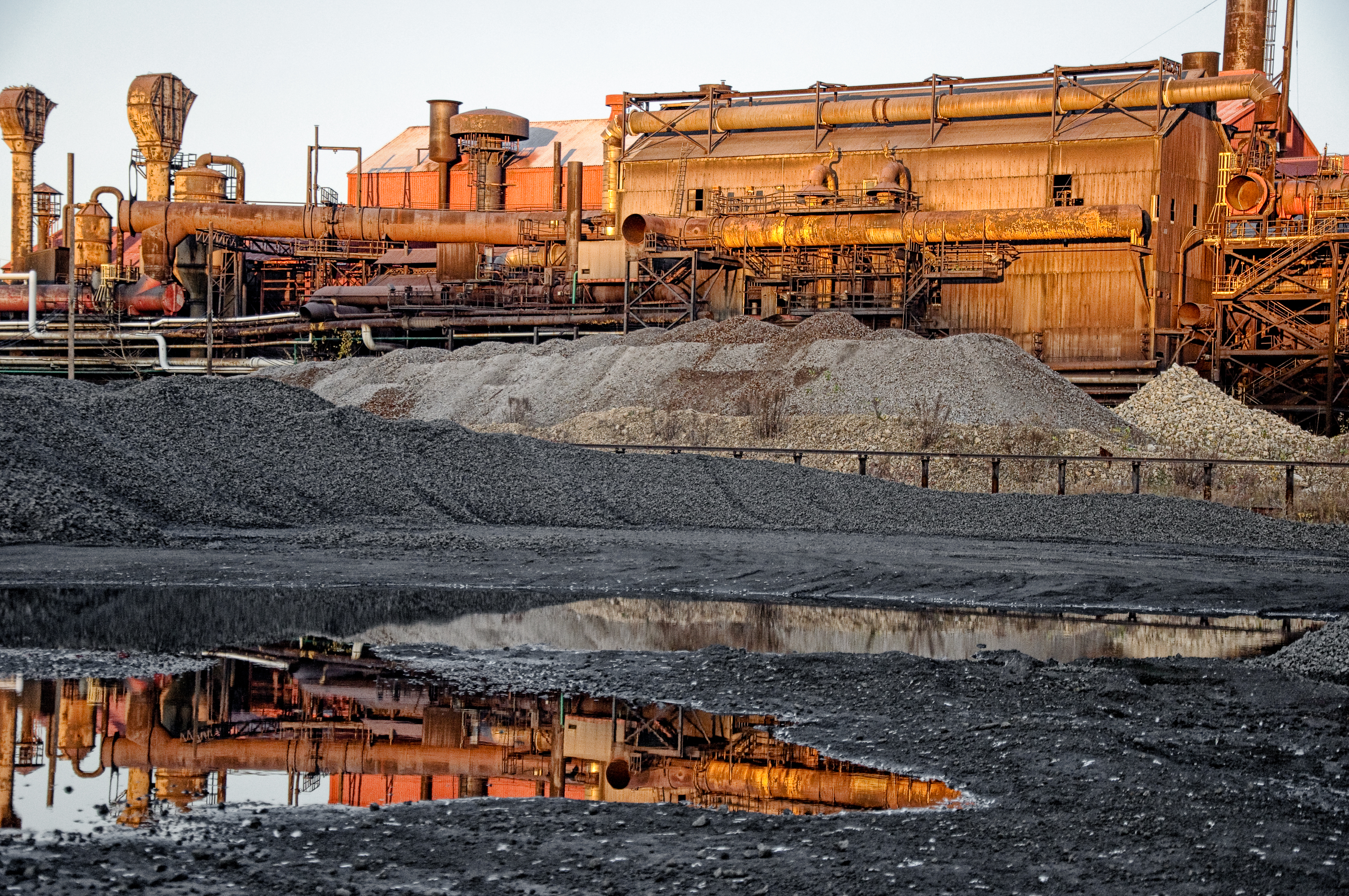 Factory near Cleveland